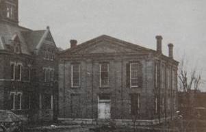 Old Perry County, Missouri, Court House.